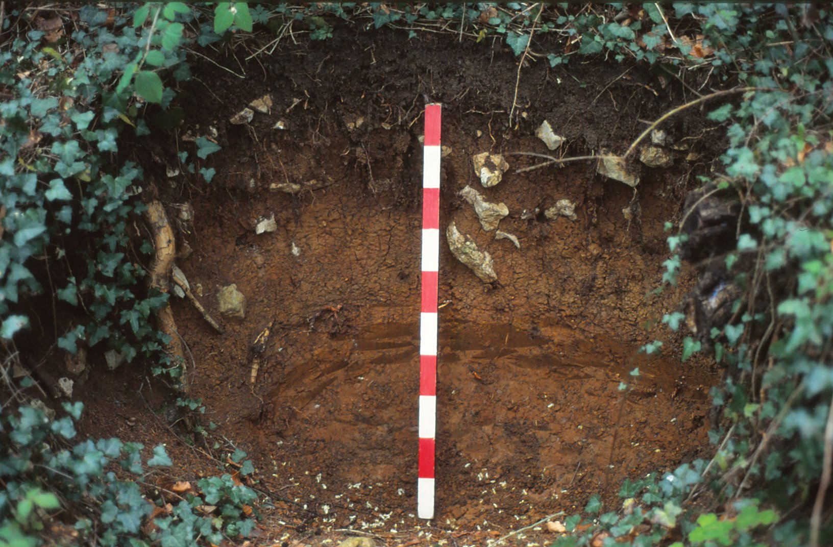 (Cambisol) Terra fusca on Keuper, Ah-IIBvT(C)-IIIBvT. W of Niederdossenbach, Dinkelberg region, Southern Black Forest, Germany.